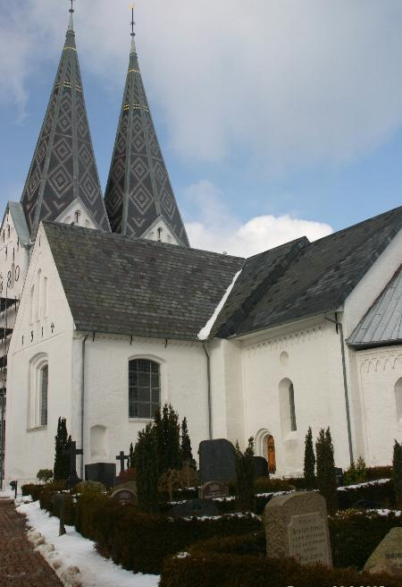 Church of Broager in Southern Jutland, near the German-Danish border.